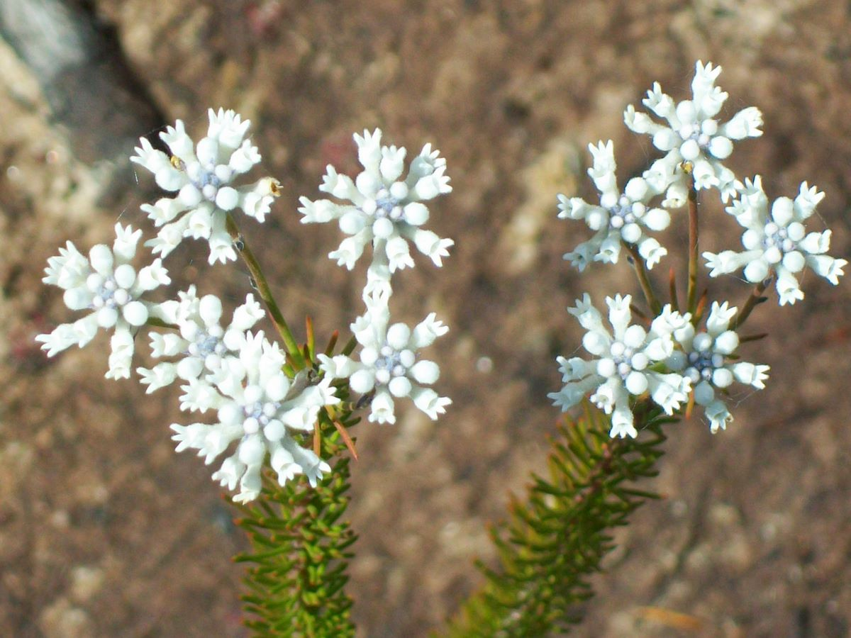 Smoke Bush Towlers Track, Ku-ring-gai Chase National Park, Australia. Possibly Conospermum ericifolium